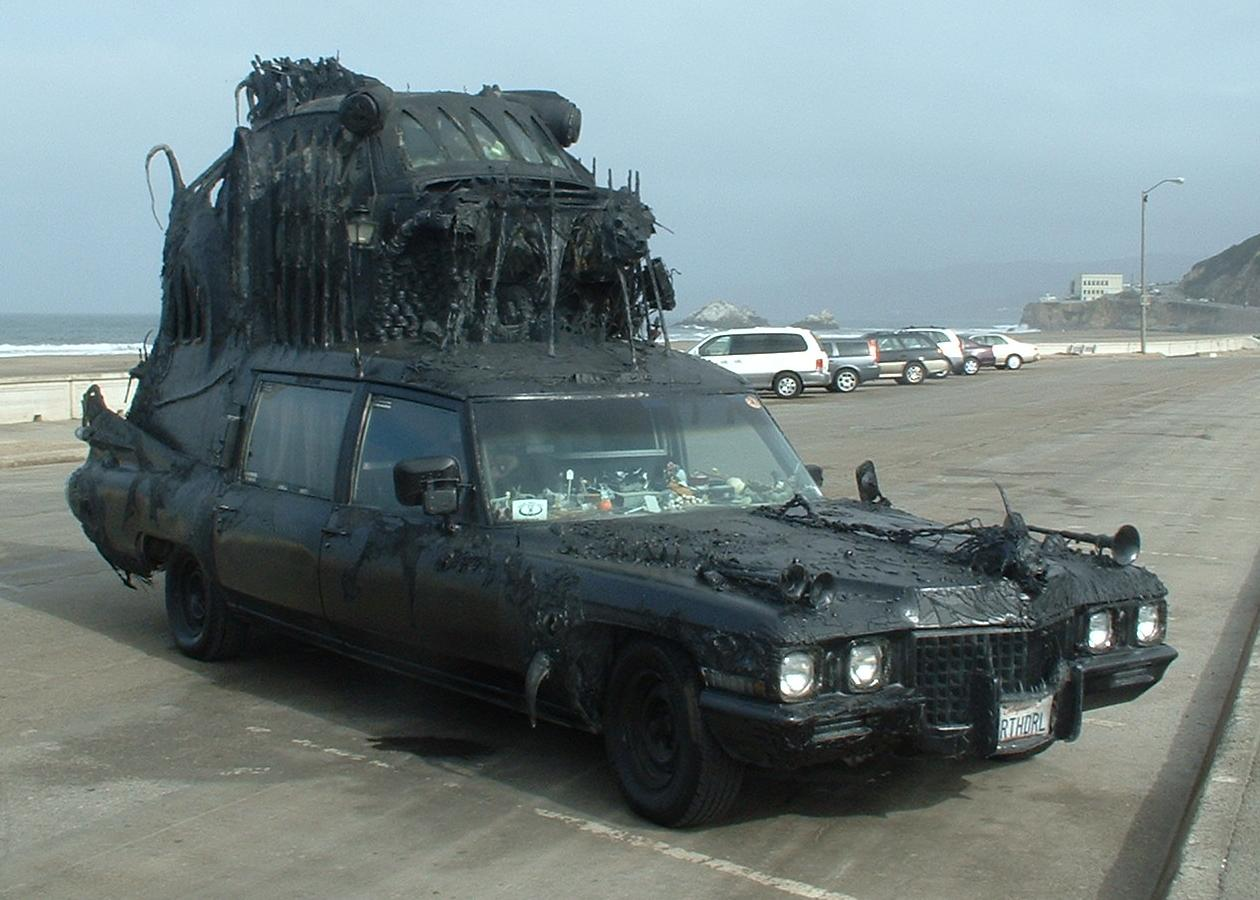 taken at ArtCarFest 2006 in front of Ocean Beach. File originally uploaded at